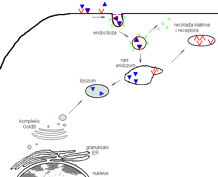 origin of the lysosomes, labels in serbian